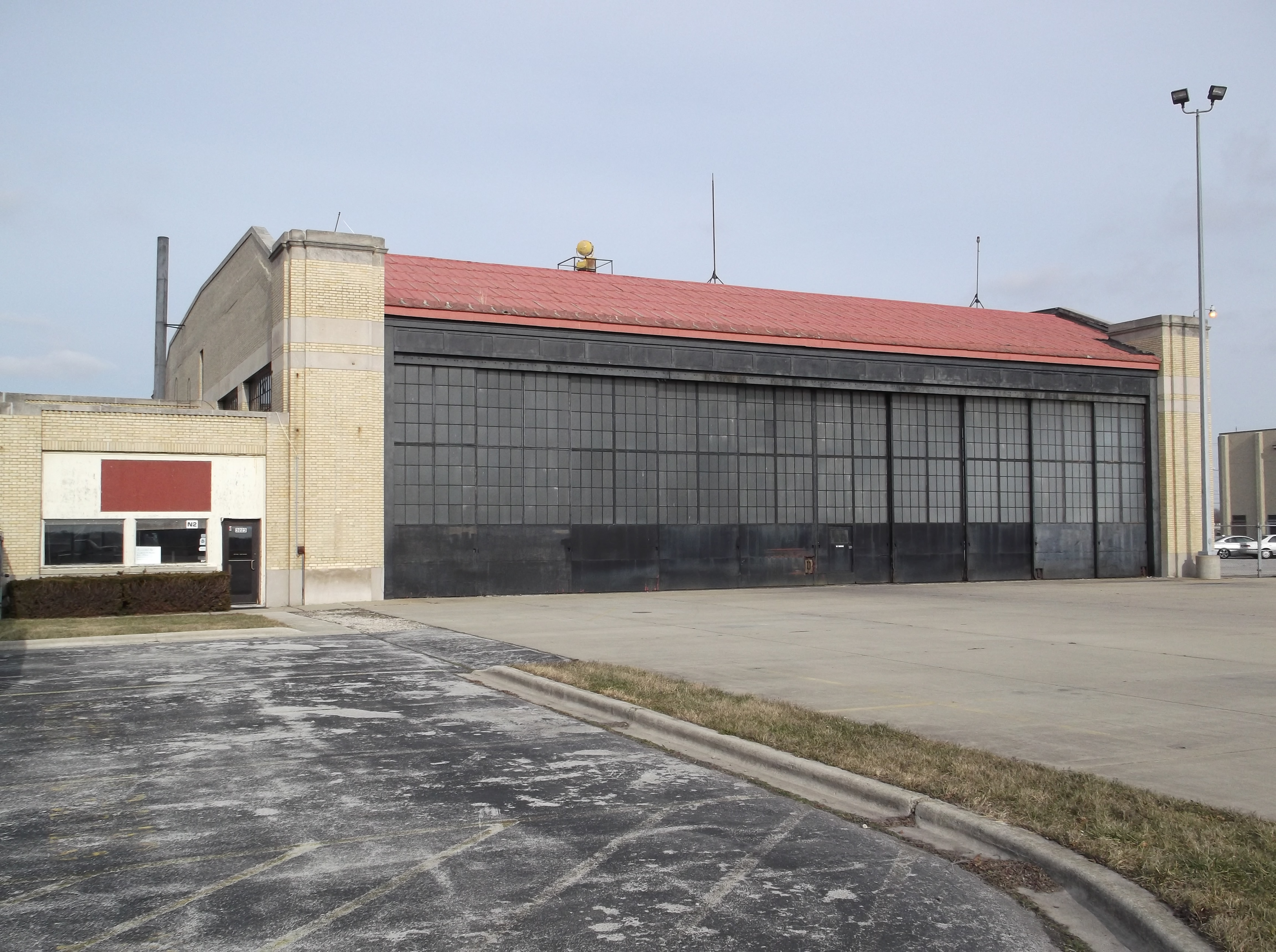 The Ford Hangar at Lansing Municipal Airport, Lansing, Illinois, United States.